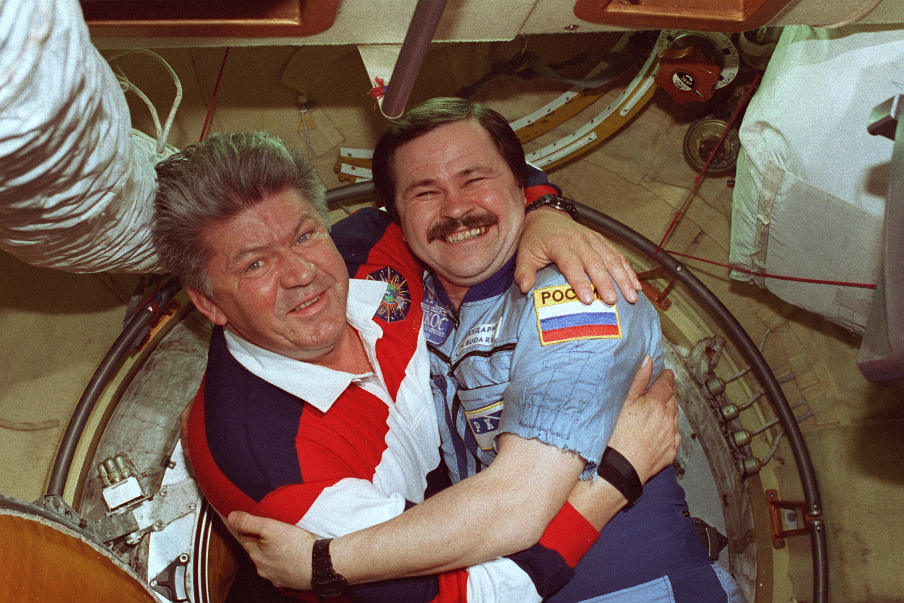 (2-12 June 1998) --- Cosmonauts Valery V. Ryumin (left)and Nikolai M. Budarin reunite moments after hatch opening, following docking of Mir and Discovery. Ryumin, mission specialist representing the Russian Aviation and Space Agency, came up to Mir along with five astronauts aboard the Space Shuttle Discovery. Budarin is Mir-25 flight engineer. Since 1992, Ryumin has been the Director of the Russian portion of the Shuttle-Mir and NASA-Mir program.